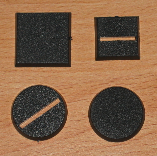 Different-shaped and -sized bases used for tabletops.